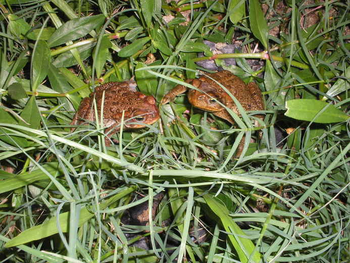 Bufo achavali